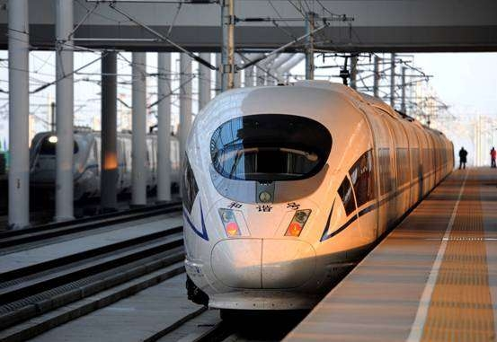 On 13 January 2011, CNR new generation EMU of CRH380BL